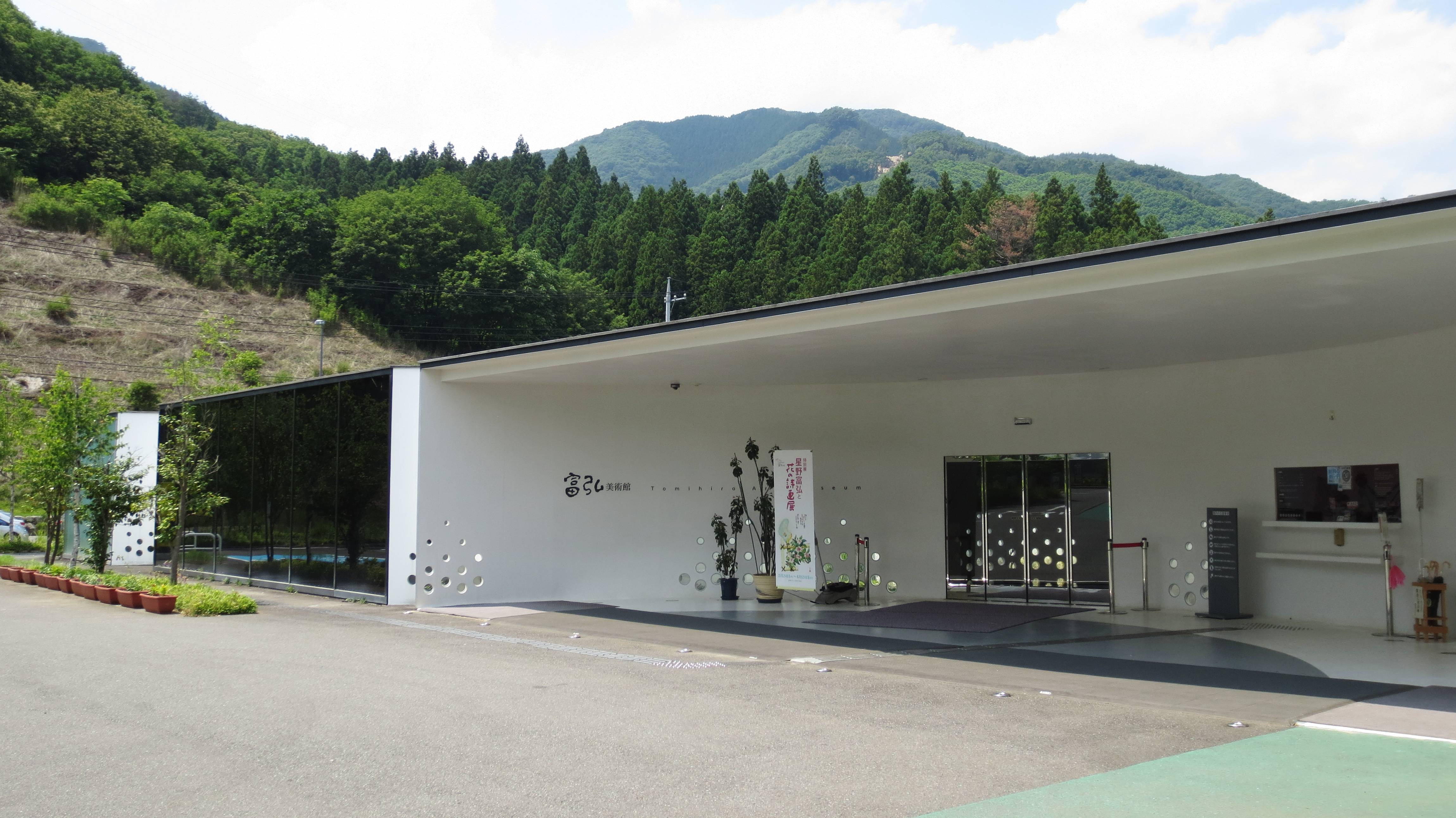 Tomihiro Art Museum (Midori, Gunma).